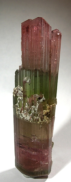 Tourmaline Locality: Himalaya Mine (Himalaya pegmatite; Himalaya dikes), Gem Hill, Mesa Grande District, San Diego County, California, USA (Locality at ) WOW! This doubly-terminated crystal diverges at its "shoulders" into a myriad of slender, gemmy, elongated red tourmaline points. It has green-red-yellow-green zoning up to that point, and then goes red-pink. The pics pretty much pale in comparison - its a VERY elegant and unusual specimen! Entirely translucent to transparent! 7.5 x 1.9 x 1.9 cm